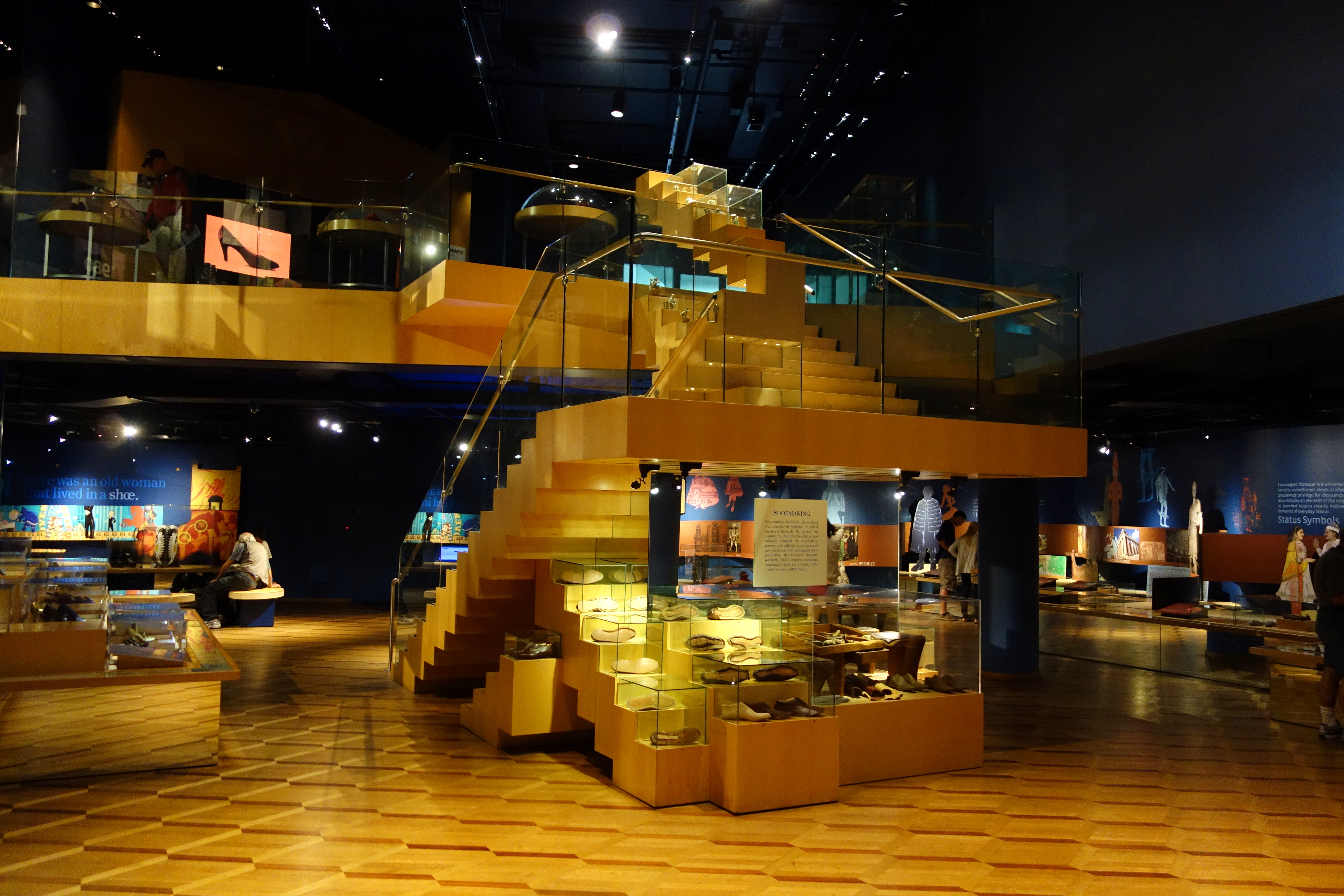 Bata Shoe Museum, Toronto, Ontario, Canada. The museum permitted photography without restriction.